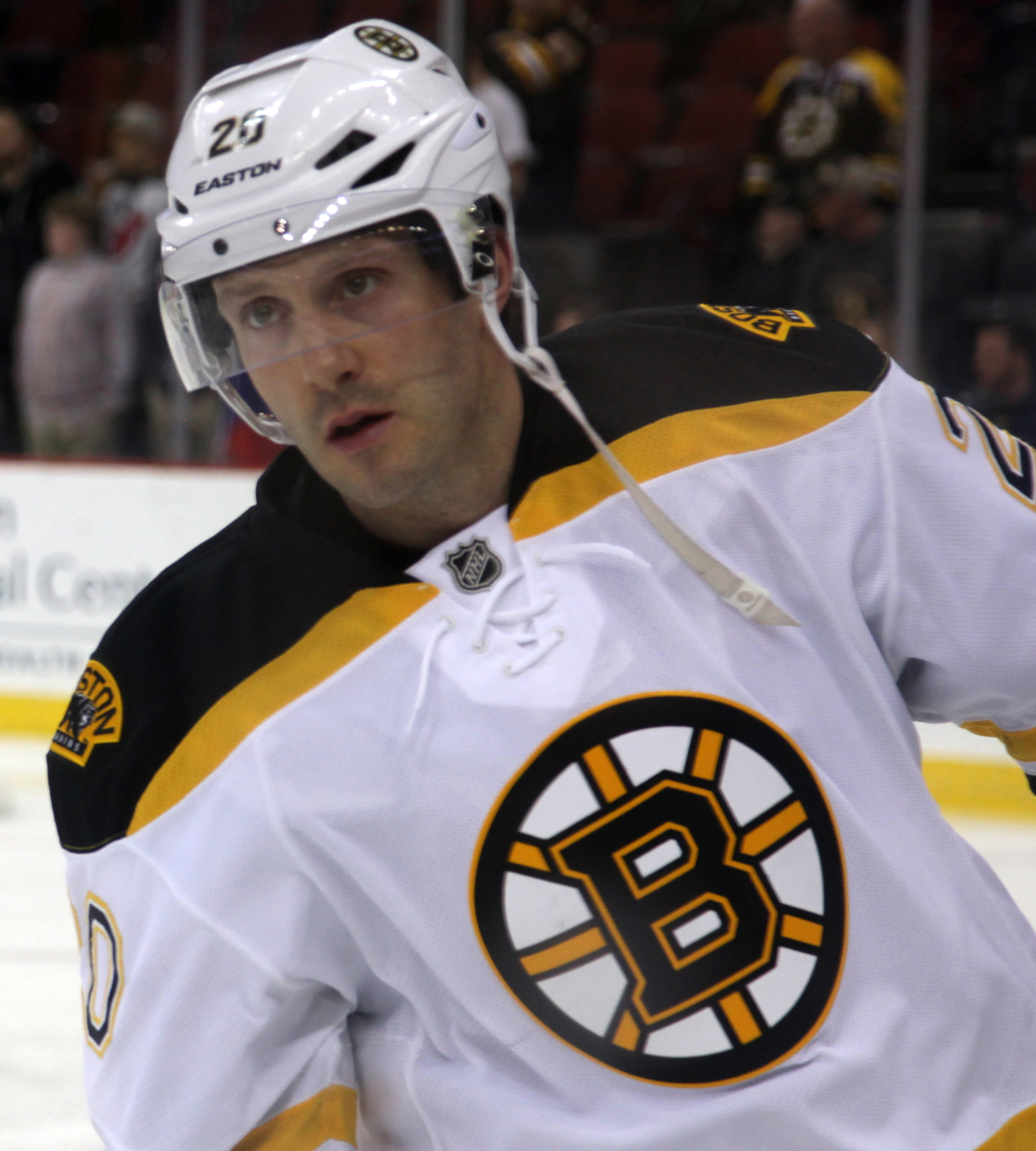 Lee Stempniak in March 2016